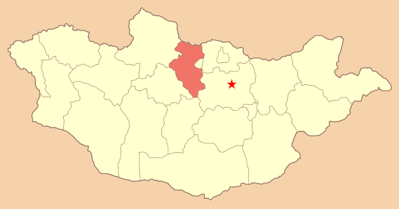 Map of Mongolia with Bulgan Aimag highlighted.